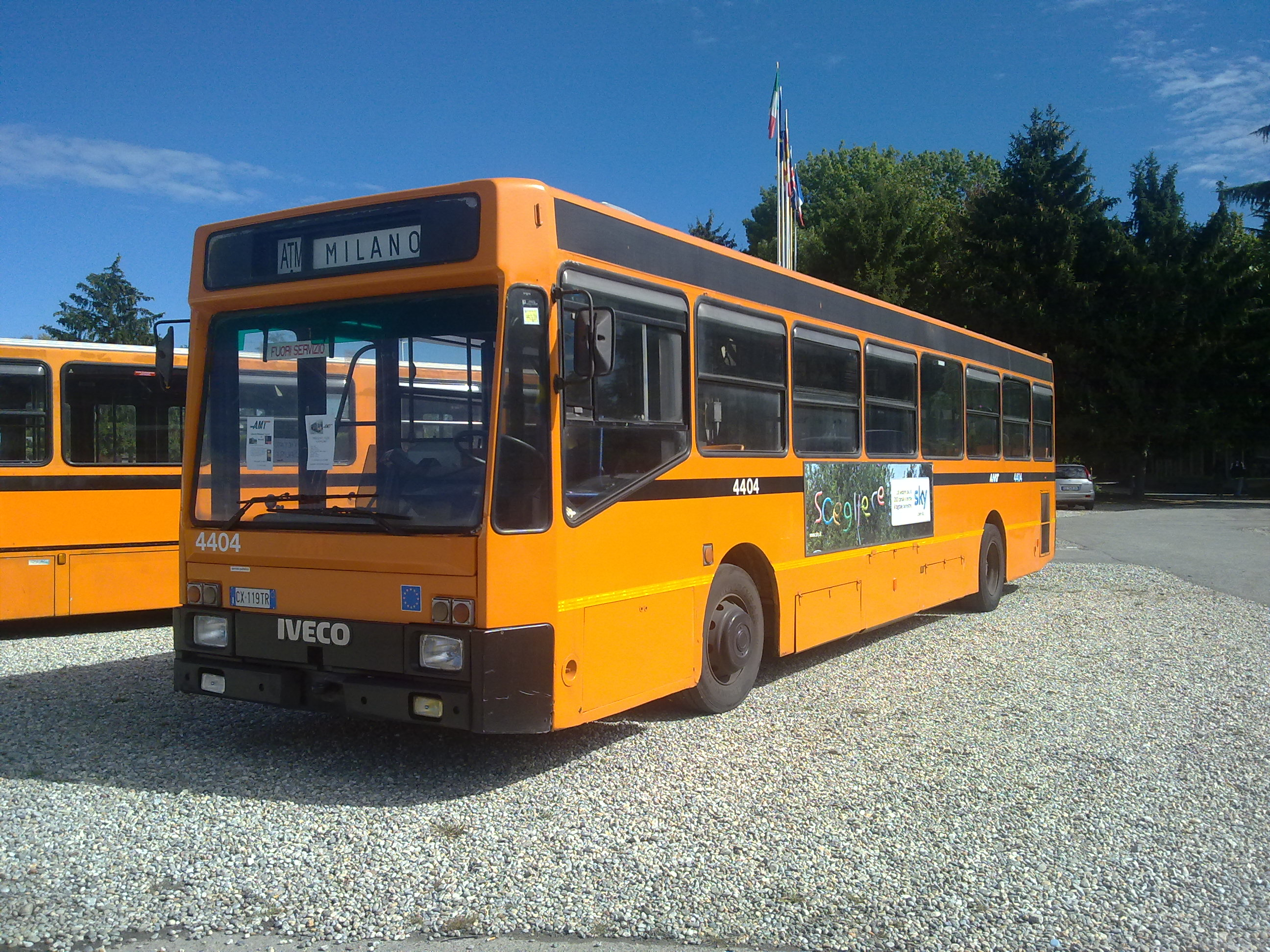 1984 italian bus model 471.12.20 "U-Effeuno" (#4404) built by Iveco. Photo taken at 34th "Hobby Model Expo" in Novegro (Italy) september 26th 2010. This bus was owned by ATM Milano (municipal company responsible for public transportation in Milan, Italy) and now belong to "AMT & Mobilità" of Bareggio.